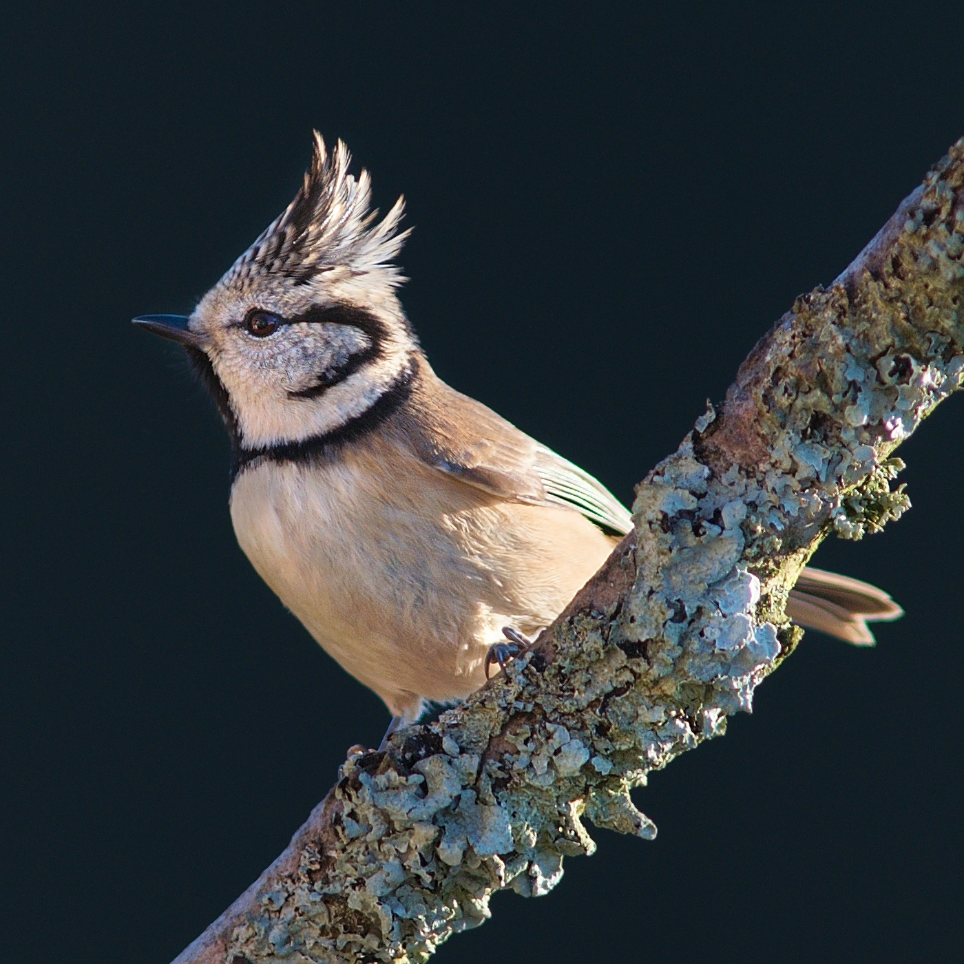 Crested Tit Parus cristatus.